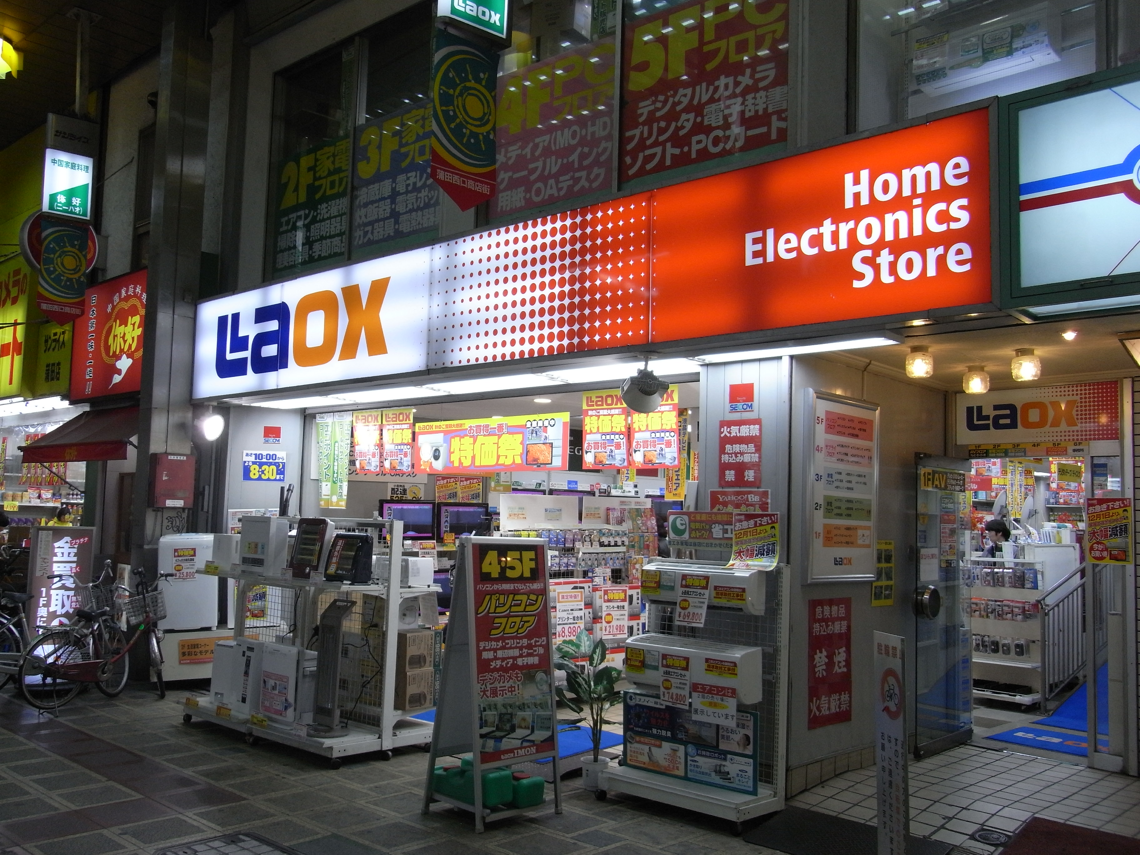 LaOX Kamata shop